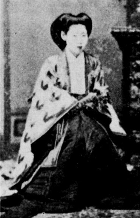 Lady Sachiko Sono (1867–1947)